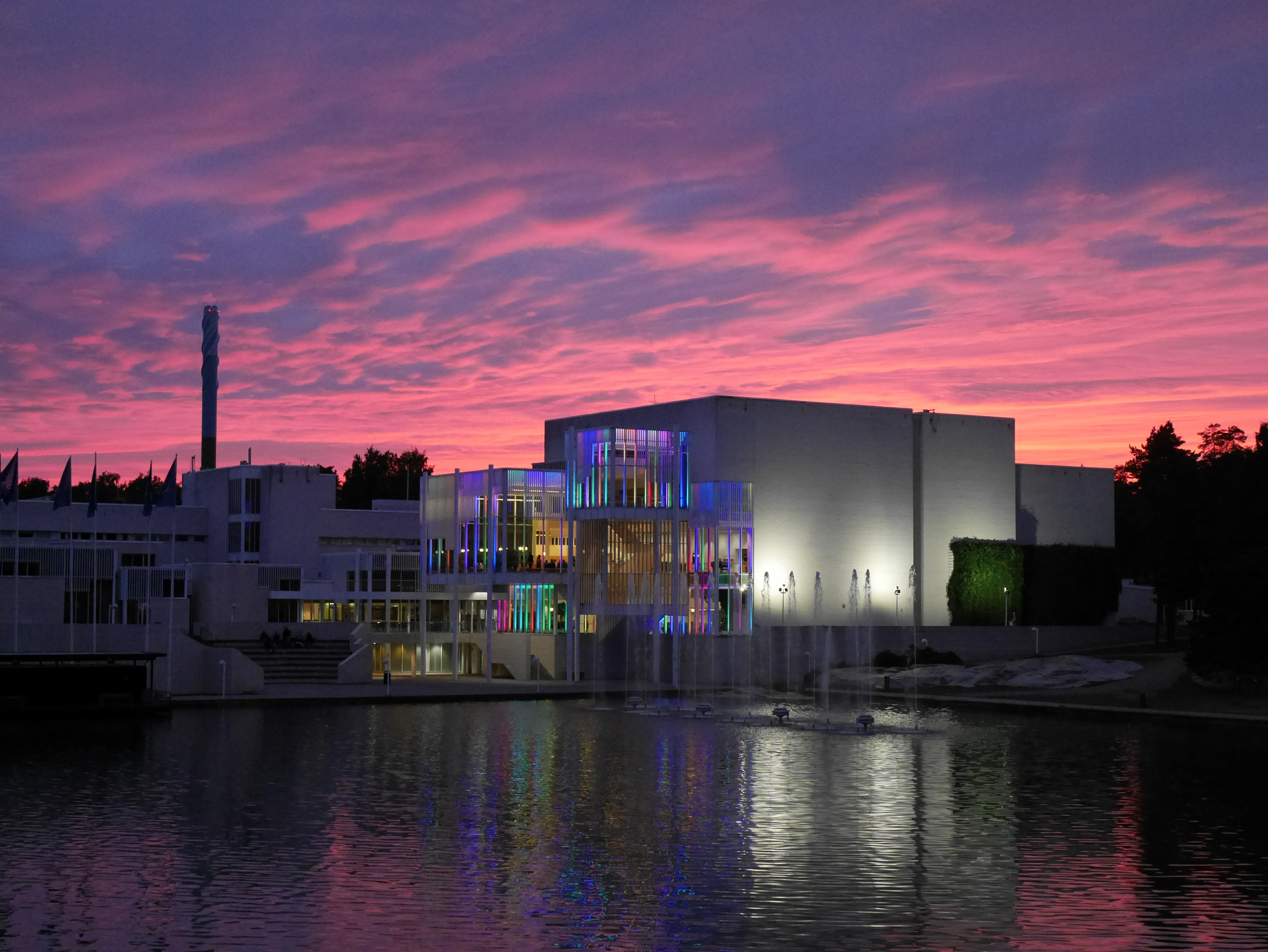 Espoo Cultural Centre; the main scene for culture and performing arts in Espoo, Finland